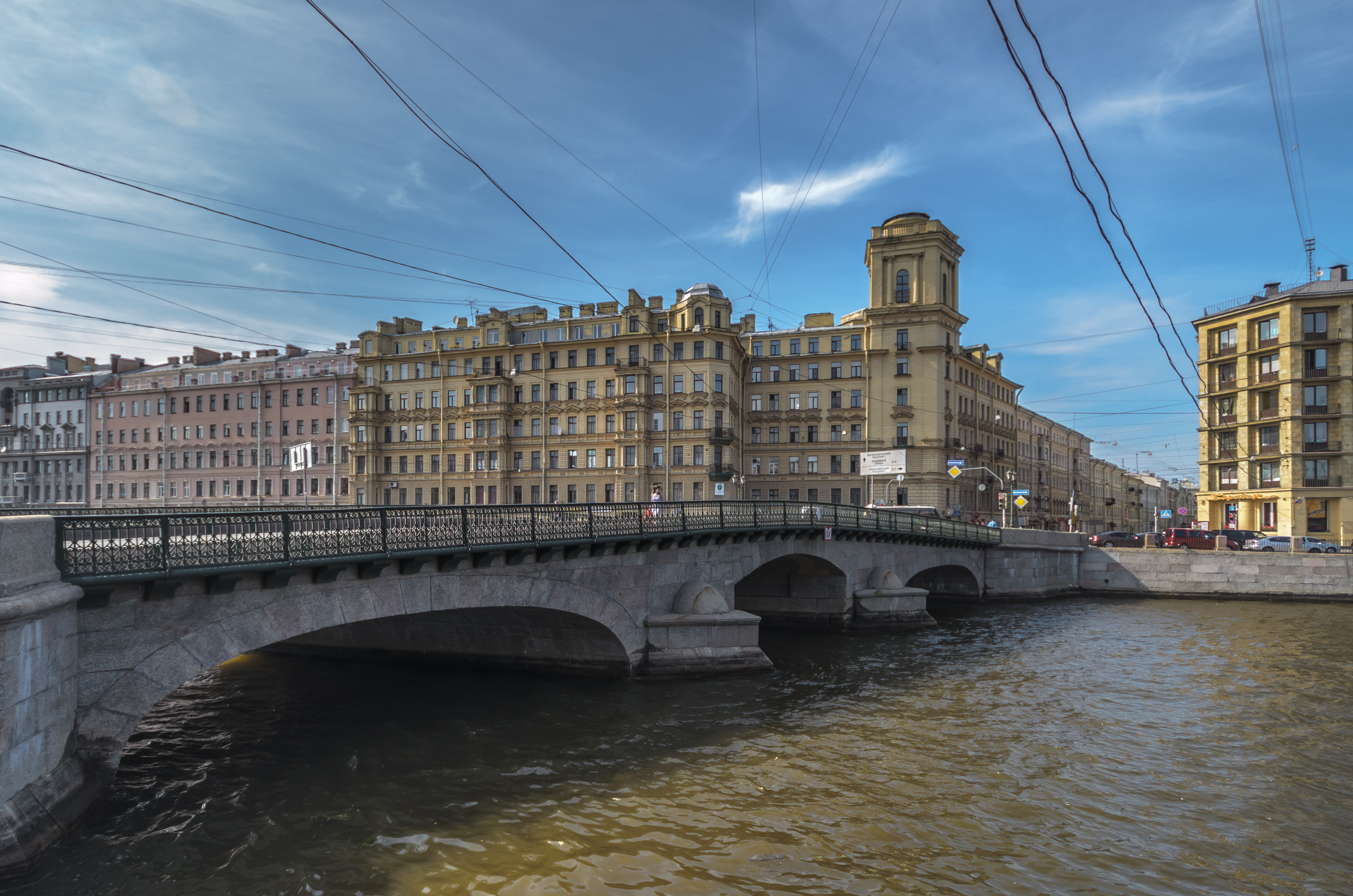 Izmailovsky Bridge in Saint Petersburg